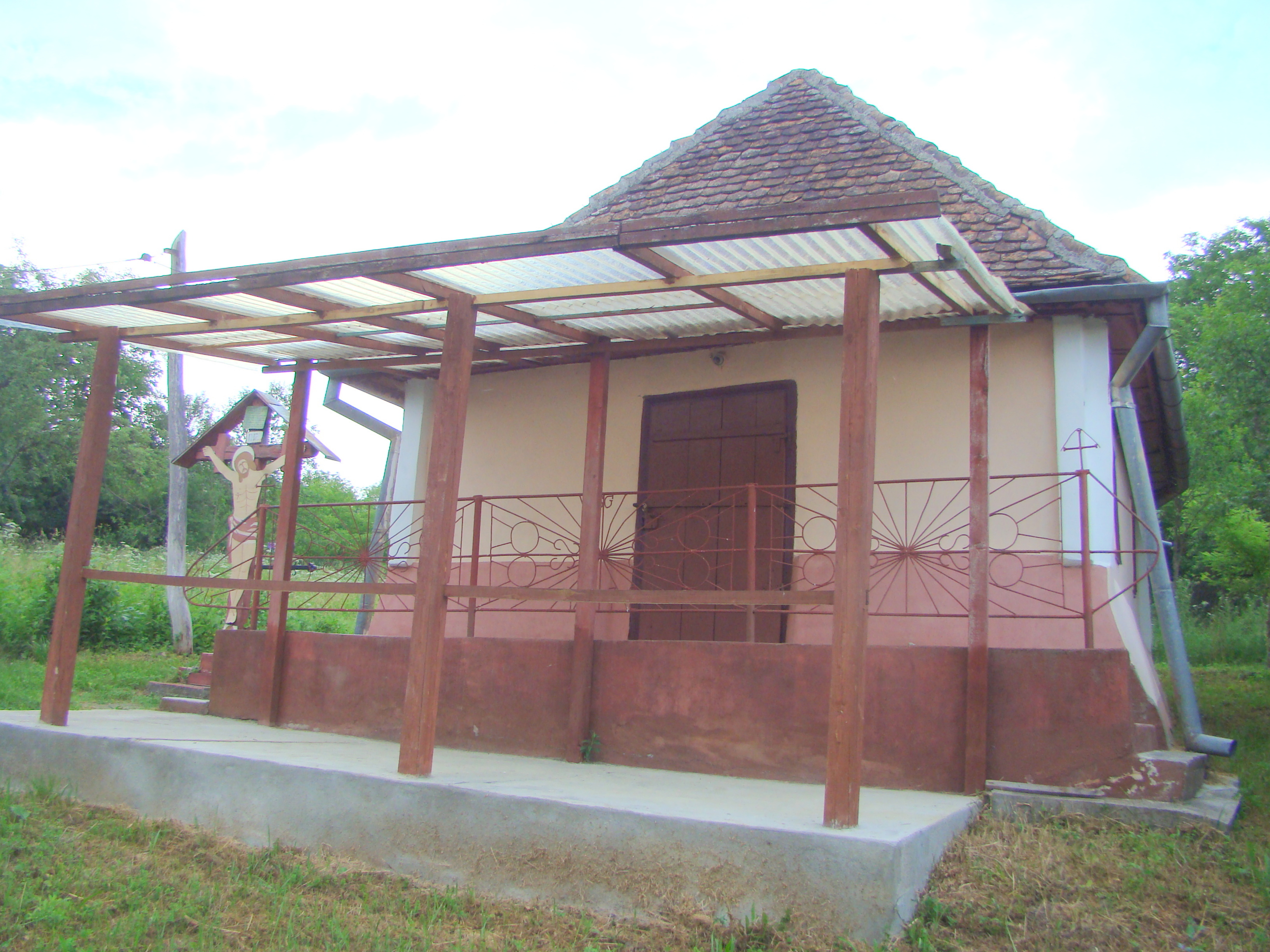 Wooden church in Cobor, Brașov county, Romania